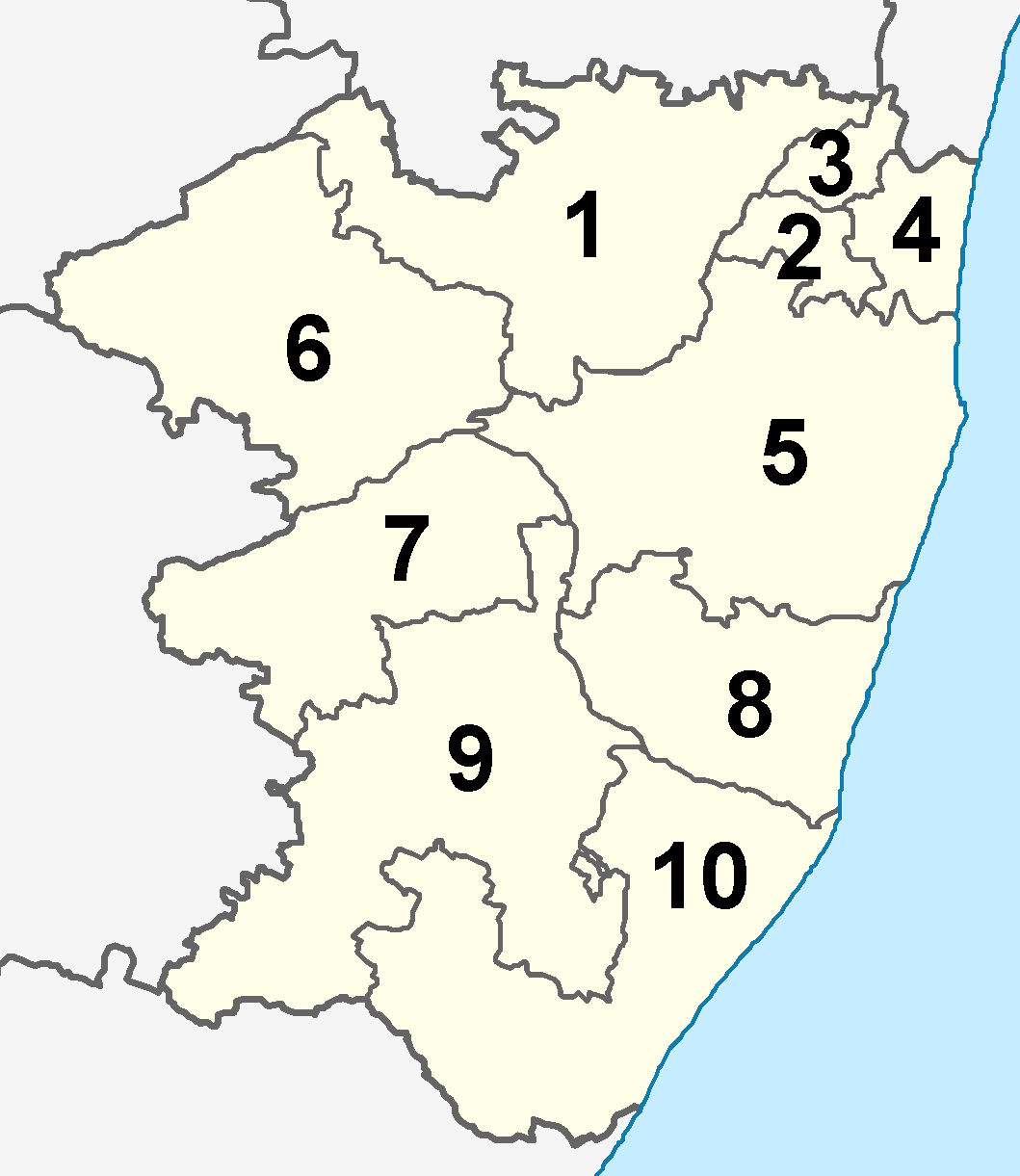 Taluks (sub-districts) of Kanchipuram district, Tamil Nadu, India (numbered) Sriperumbudur Tambaram Alandur Sholinganallur Chengalpattu Kanchipuram Uthiramerur Tirukalukundram Maduranthakam Cheyyur